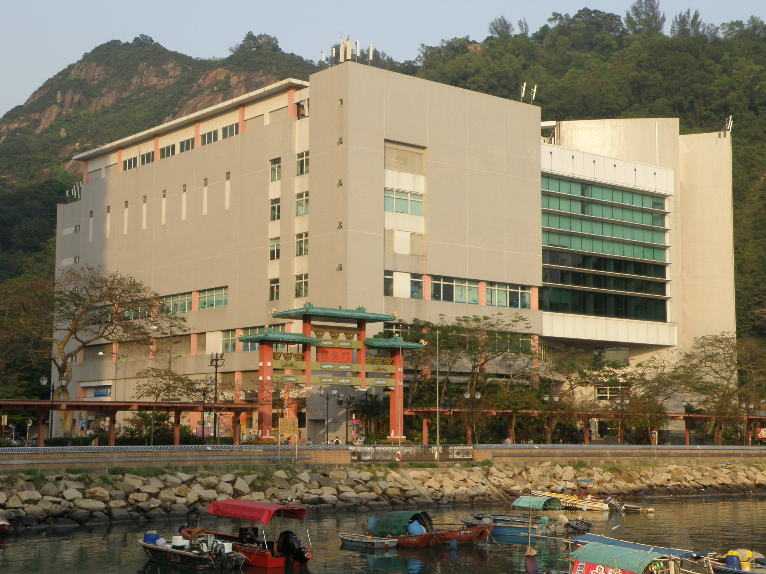 Lei Yue Mun Municipal Services Building in Yau Tong, Hong Kong.